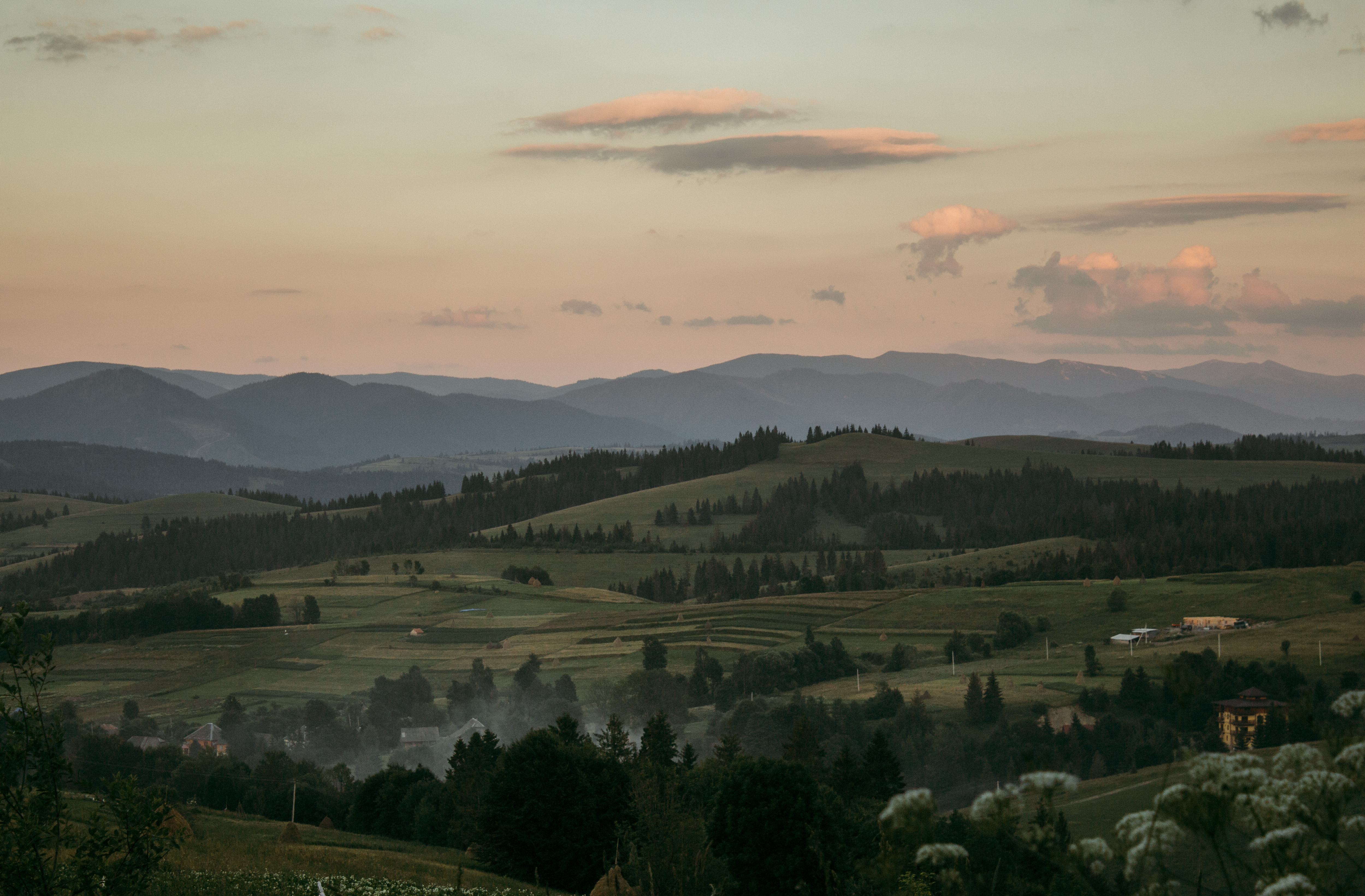 Carpathian Mountains